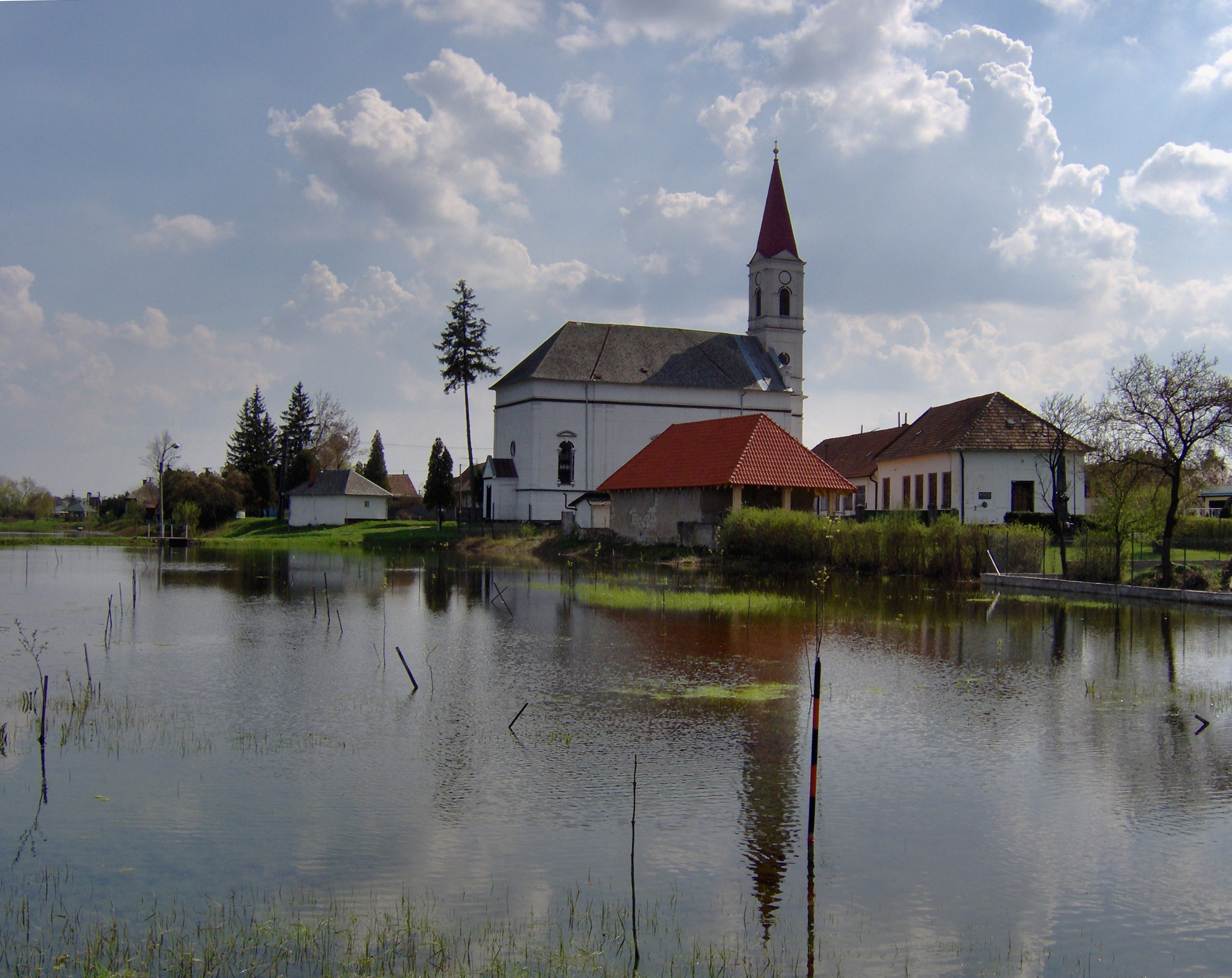 Horná Seč, ref. church, 2006